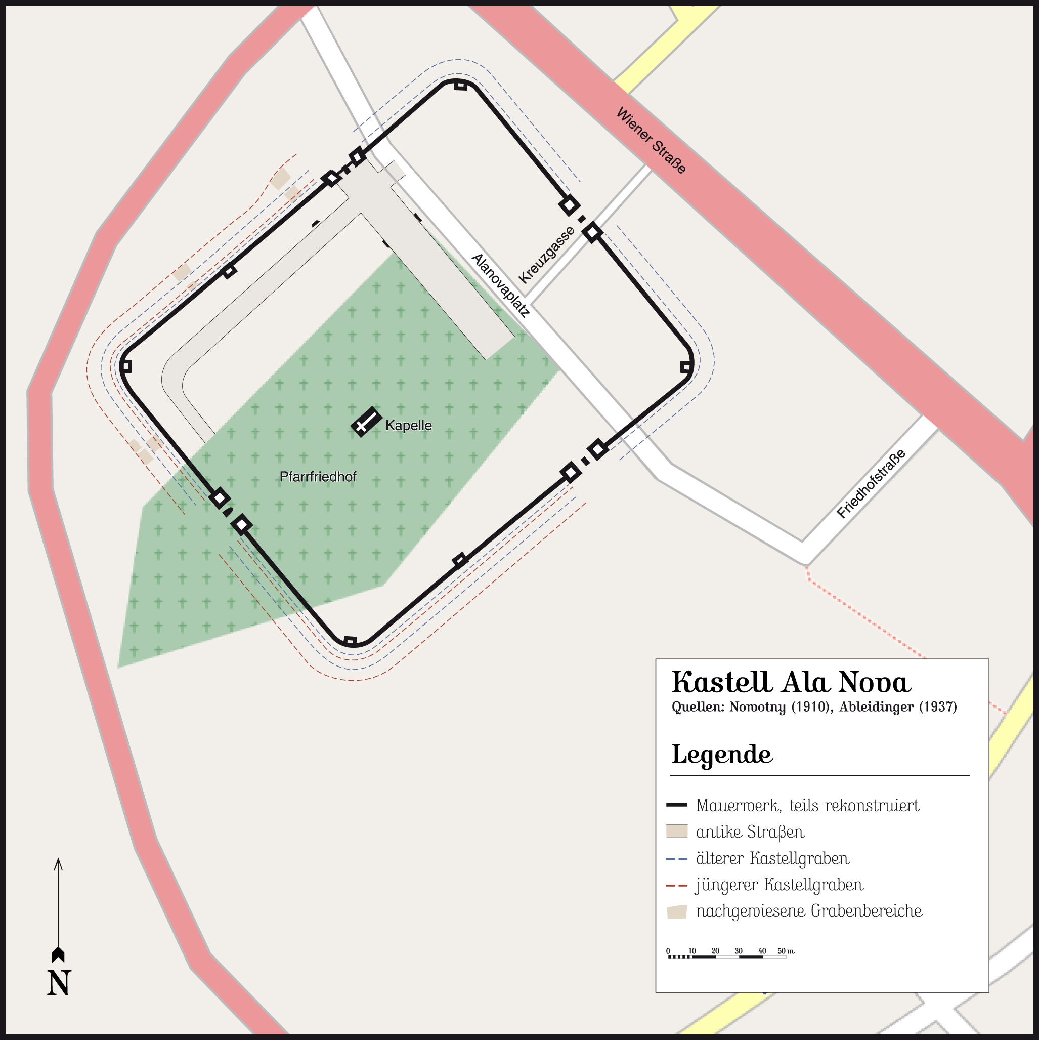 Roman castle Ala Nova (Schwechat) near Vienna, Austria.